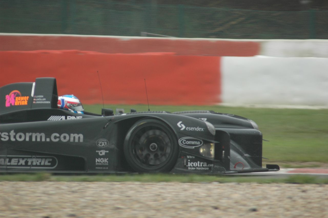 Lister Storm LMP at the 2005 1000km of Spa